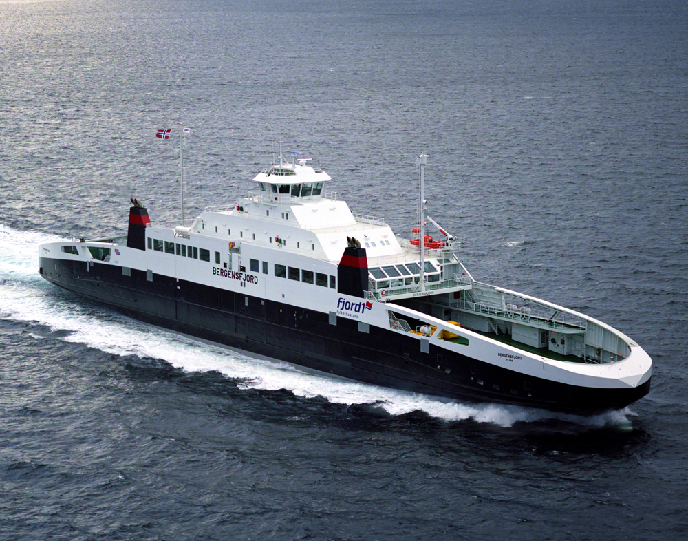 Bergensfjord 72